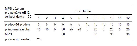 MPS Example